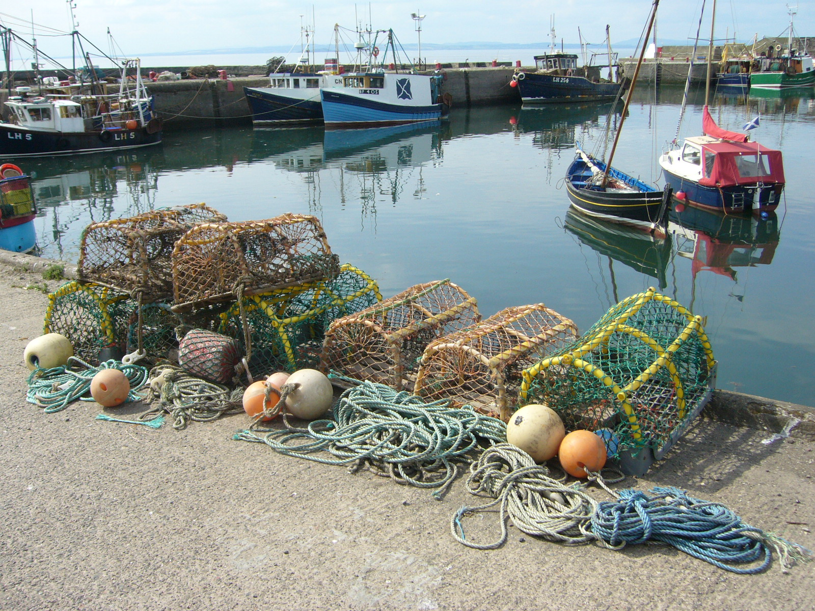 Lobster creels at Port Seton Harbour